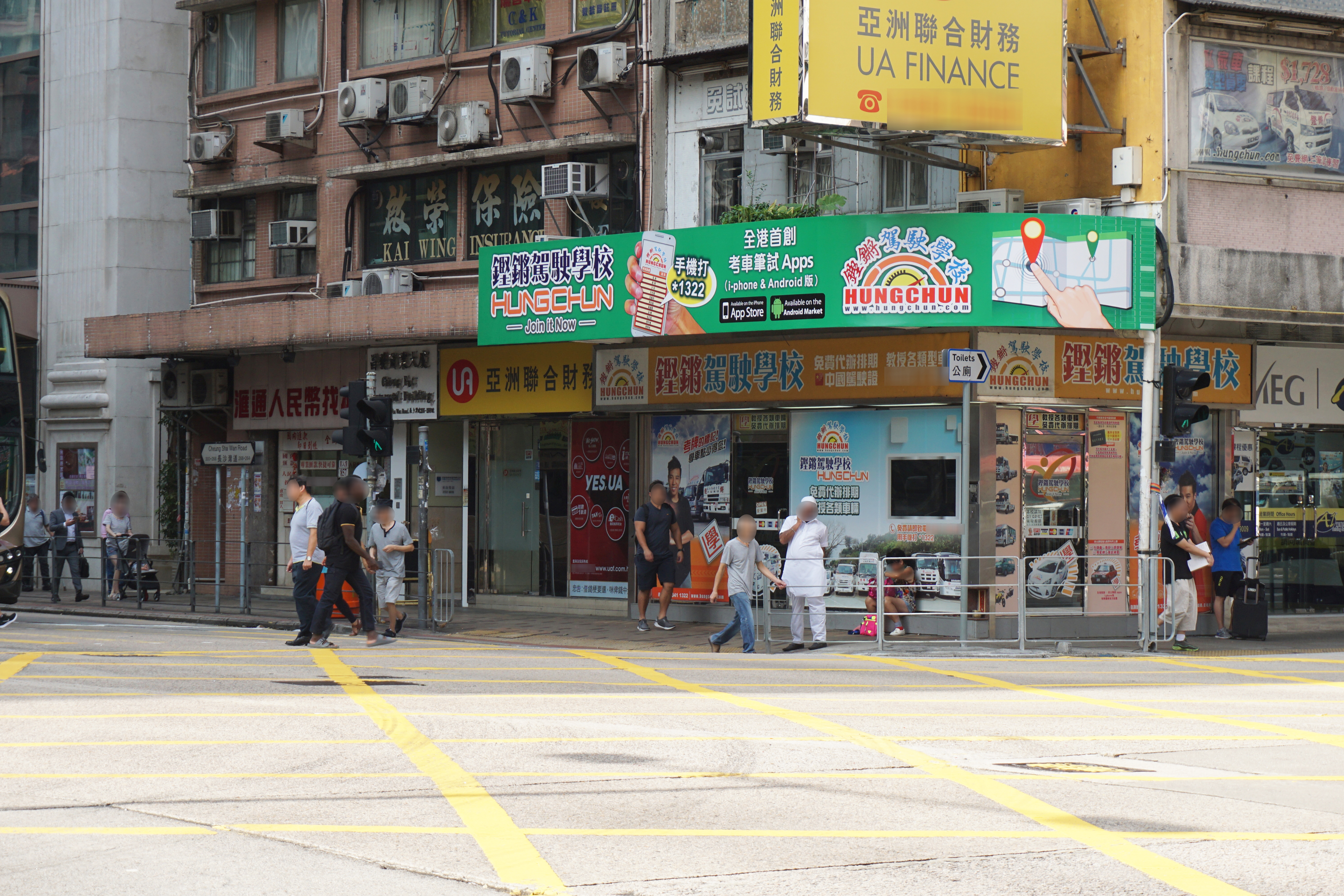 Citybus accident in Sham Shui Po, Hong Kong.